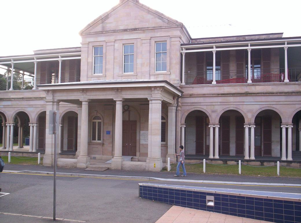 First Queensland Government House ( this photograph was taken by Figaro )